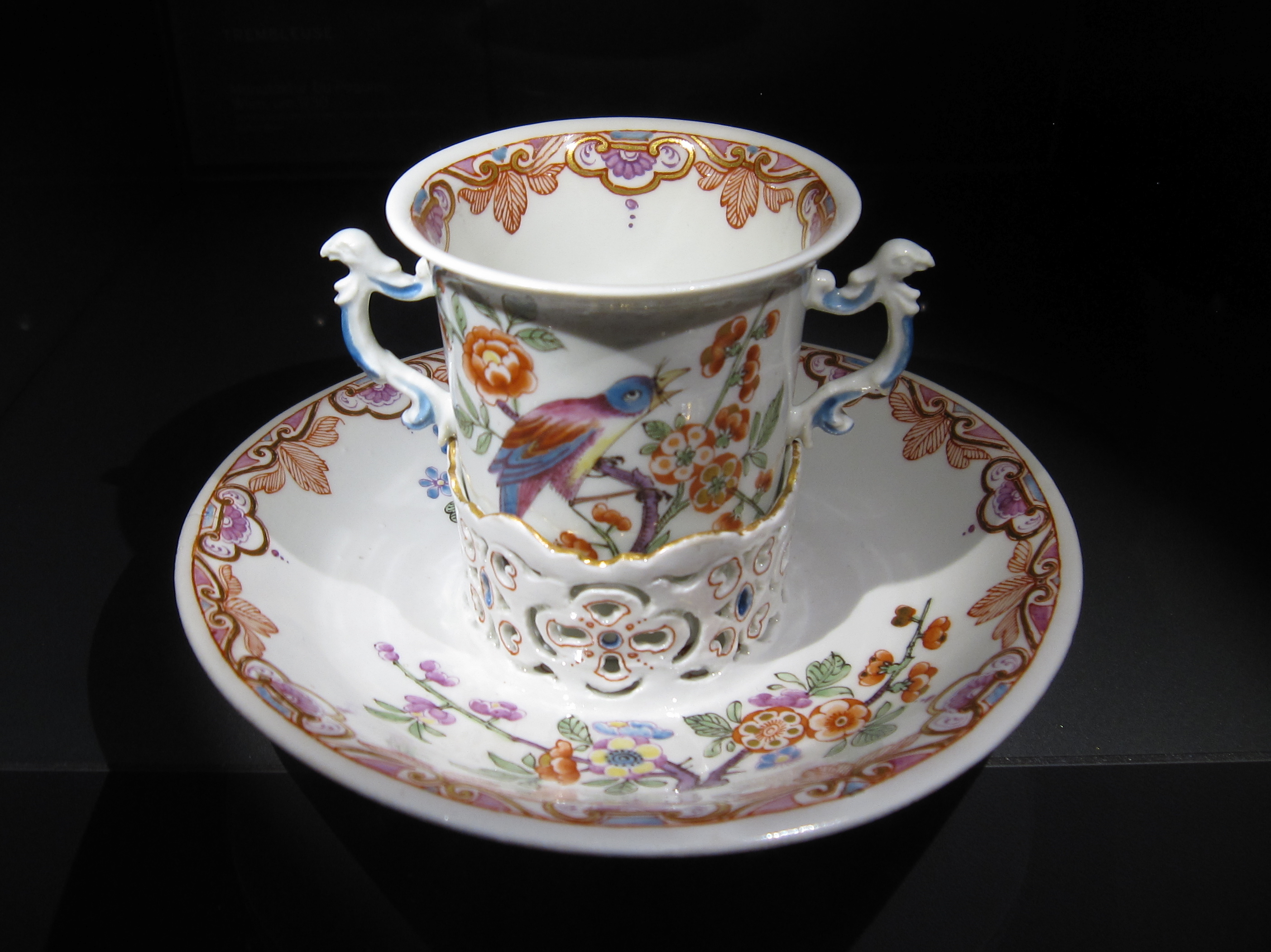 Trembleuse. Manufactory of du Paquier. Vienna, around 1730. Collection of the Prince of Liechtenstein, Vaduz-Vienna.